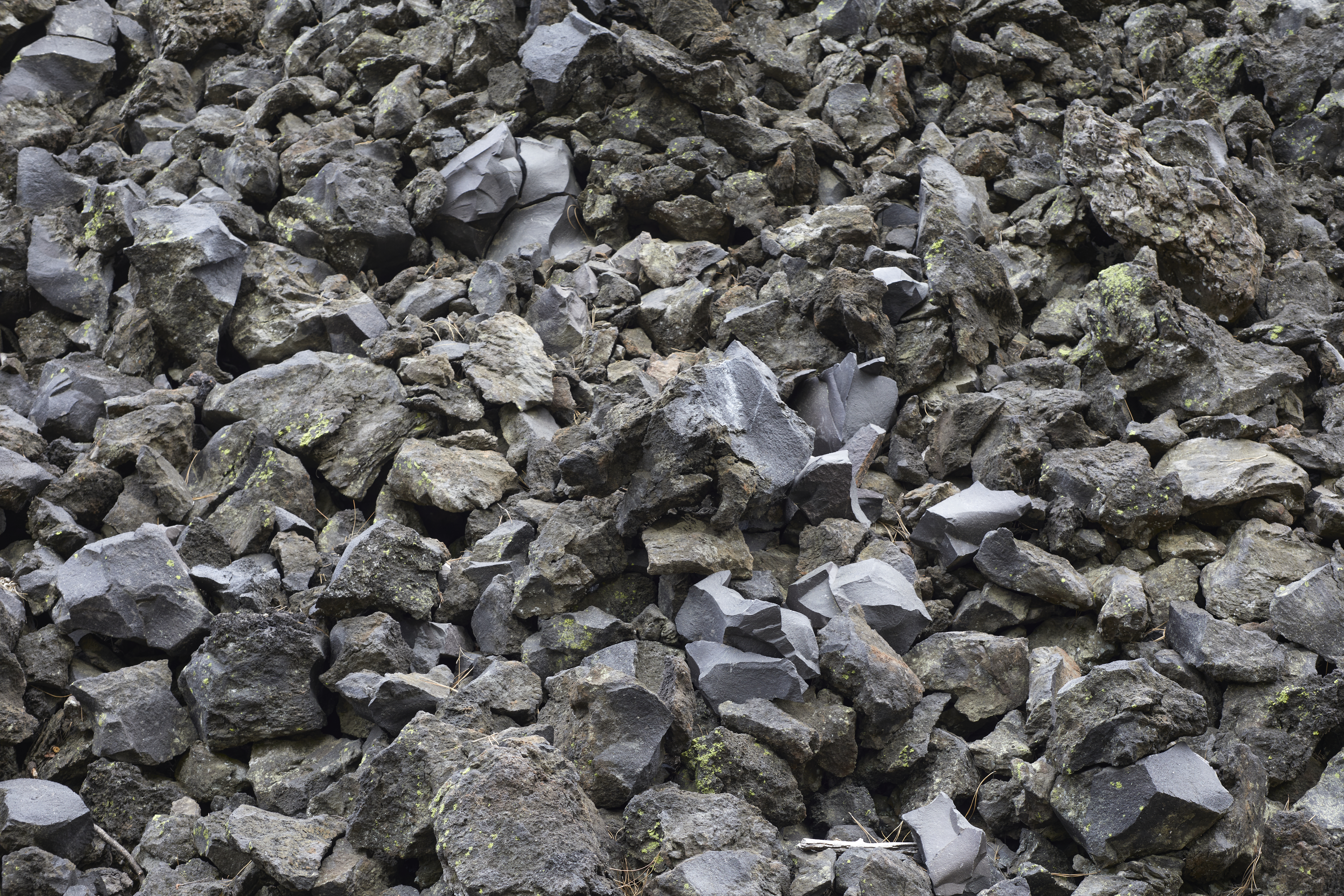 Block lava at Fantastic Lava Beds near Cinder Cone in Lassen Volcanic National Park, as seen on June 12, 2020.